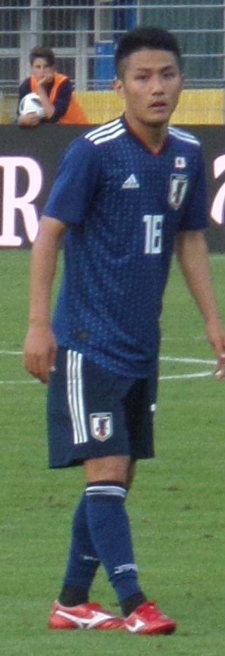 Ryōta Ōshima at Switzerland vs Japan (June 2018)